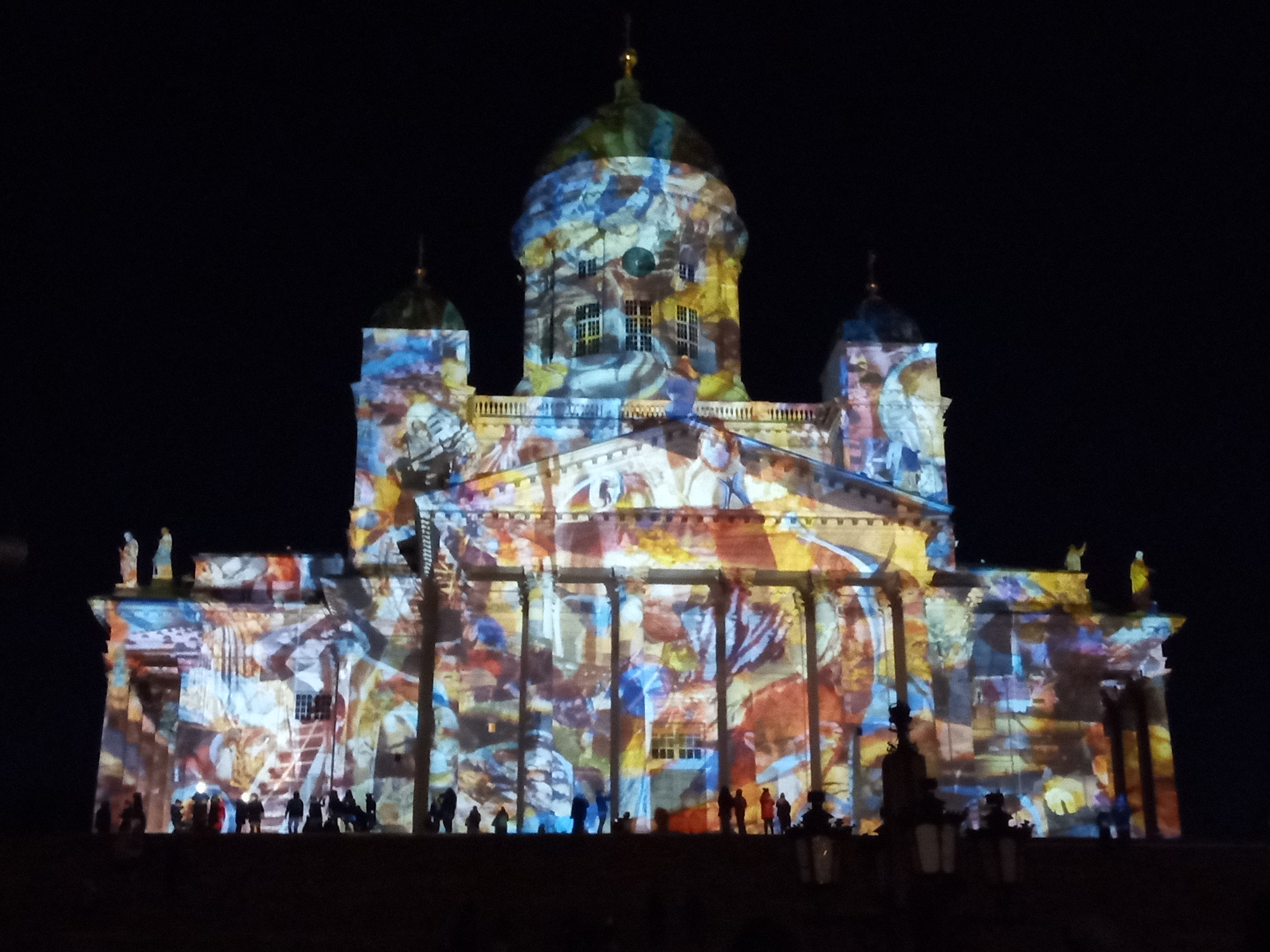 The light show onto Helsinki Cathedral in Lux Helsinki 2020.